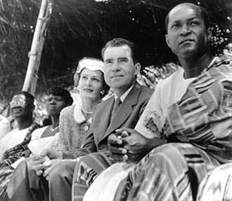 Vice President and Mrs. Pat Nixon, pictured here with Ghana's finance minister, K. A. Gbedeman, led the U.S. delegation at the Ghana independence celebrations in 1957.